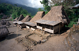 Bena village on the island of Flores, one of the Lesser Sunda Islands, Indonesia.